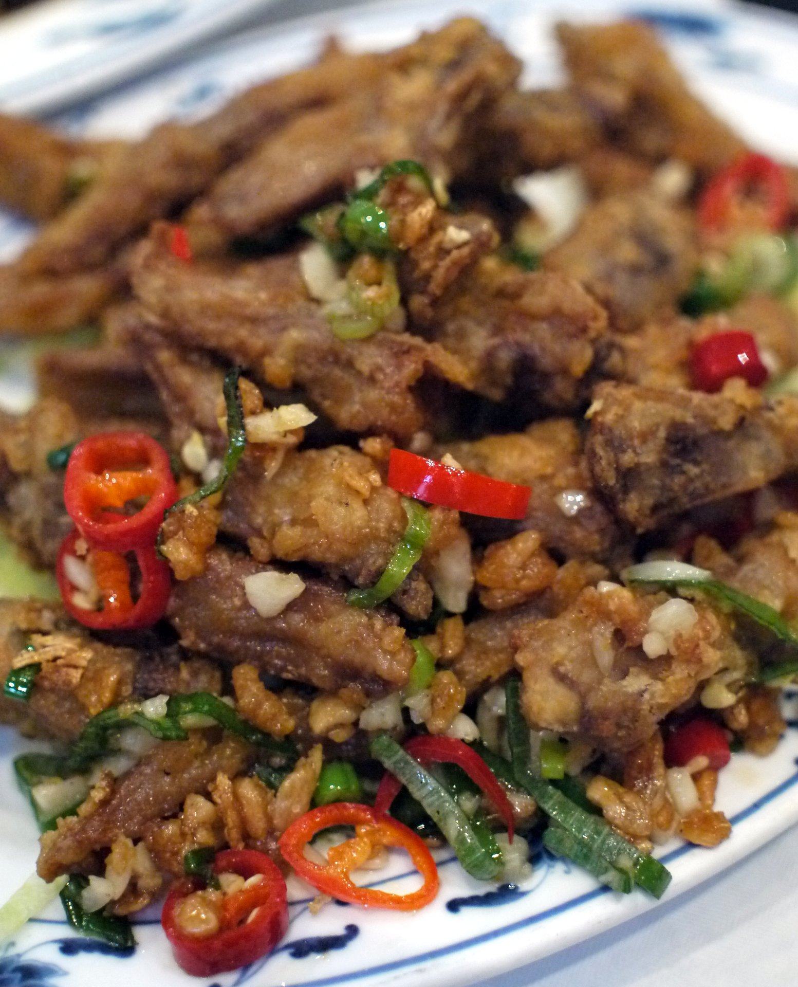 Spicy deep-fried duck tongue in a Cantonese restaurant in The Hague, Netherlands